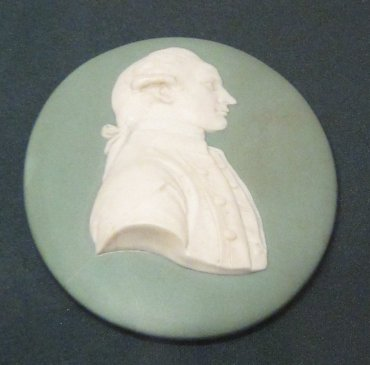 Medallion of Captain James Cook, Josiah Wedgwood and Sons, c. 1784, Jasperware, Honolulu Museum of Art, accession 1162.1